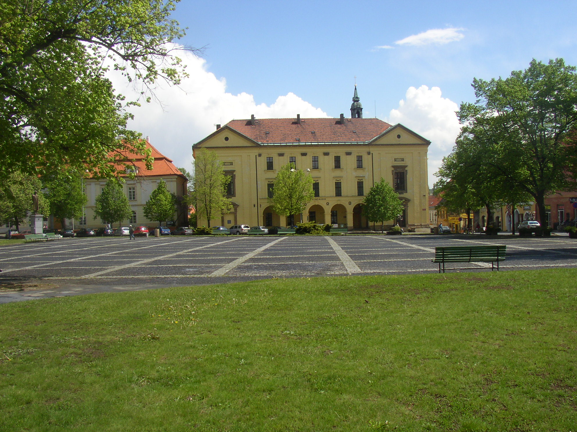 Masaryk Square in Slaný, Czech Republic. In the background former Piarist College from 1665 which houses local museum and municipal library.